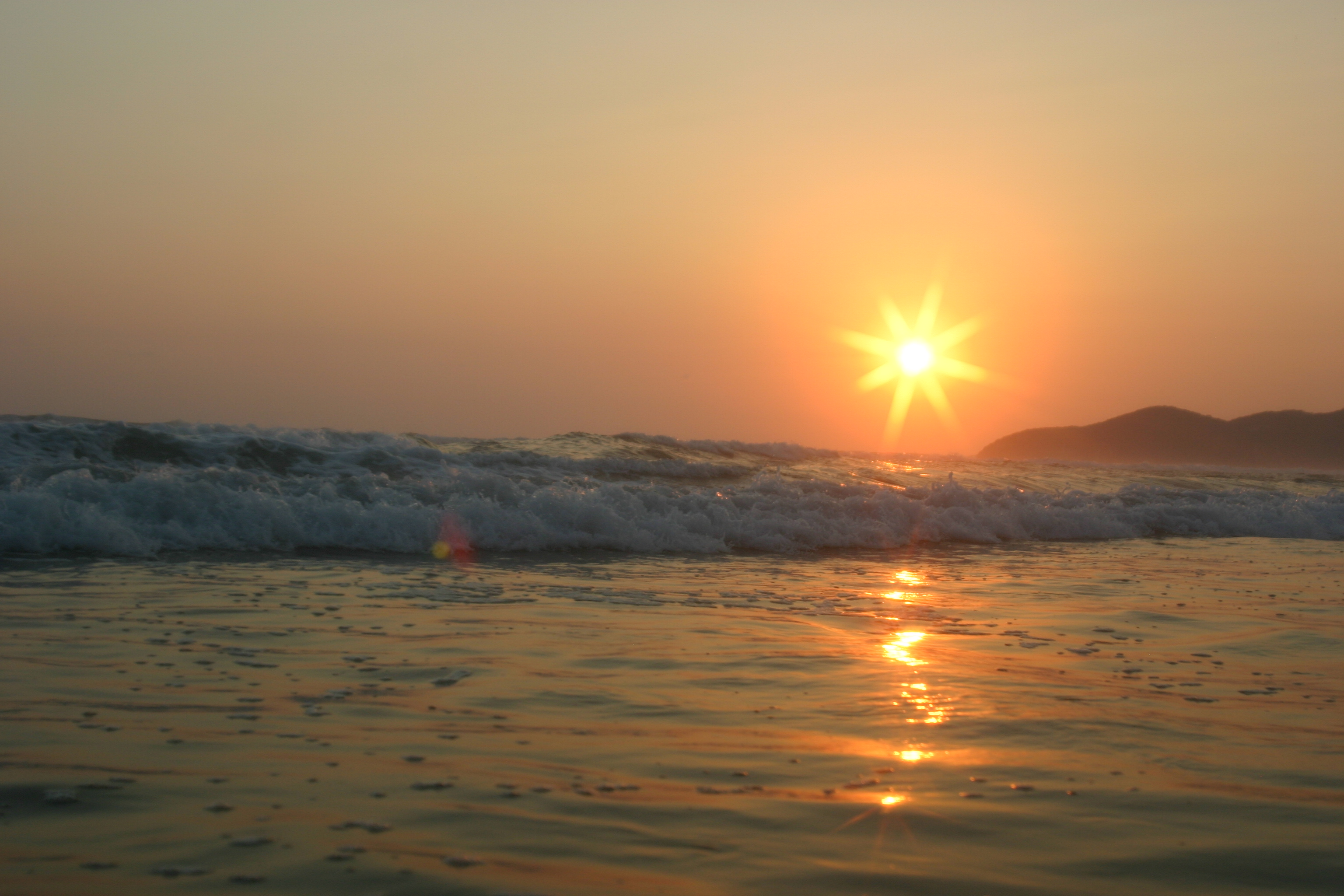 A breezy summer afternoon over the Pacific Ocean at Acapulco